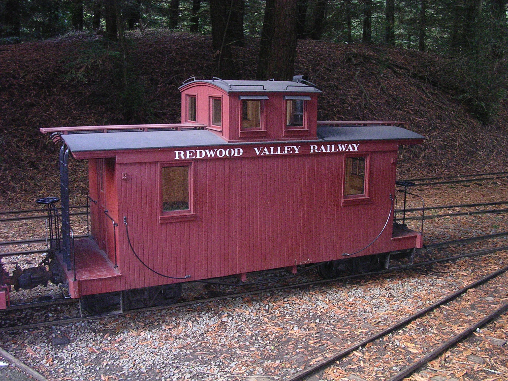 The caboose!